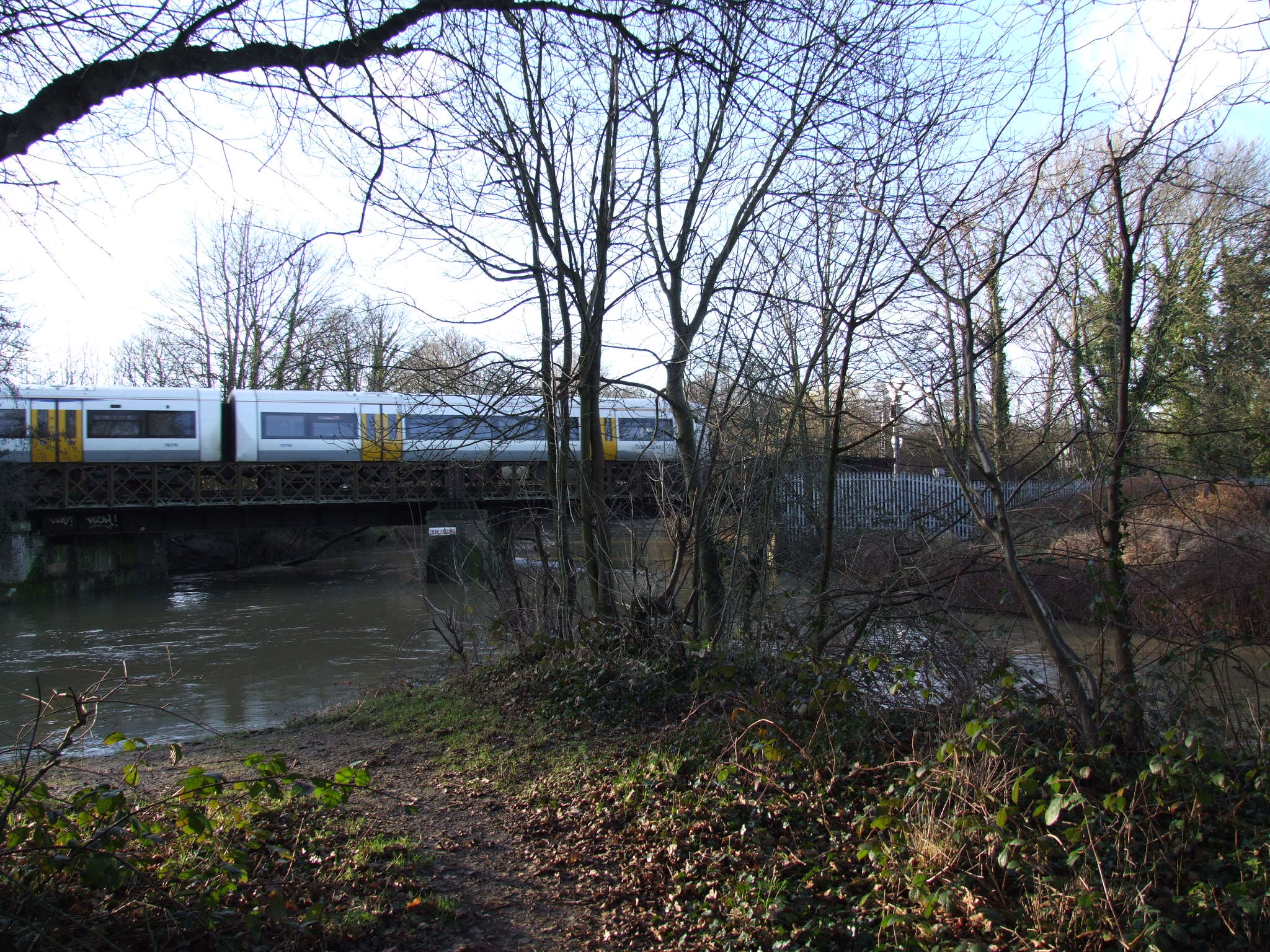 Tonbridge in Kent lies on the River Medway. The main channel passes under Big Bridge.Three channels have been culverted, the Botany Stream remains. Tonbridge is protected by Tonbridge Castle Networker crossing the South Eastern Main Line bridge over the Medway, at the point where the channel divides.